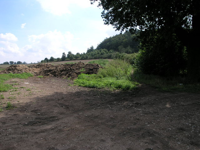 Footpath and Oak Tree. This footpath leaves a byway and leads across Barrow Hills to nearby Harwell.